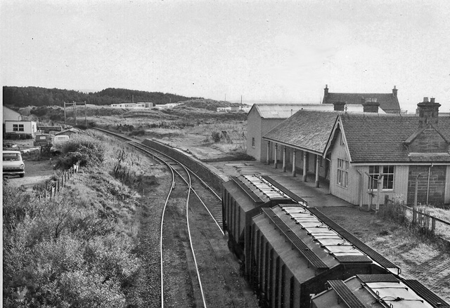 Burghead Station (remains). View southward, towards Alves; ex-Highland, Alves - Hopeman branch. This station lost its passengers on 14/9/31 when the branch services ceased. Goods traffic continued until 7/11/66, although cut back from Hopeman on 30/12/57. (The large wagons in the foreground were for the large Burghead Maltings).